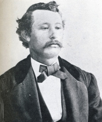 American outlaw Will "Black Jack" Christian (1871-1897)